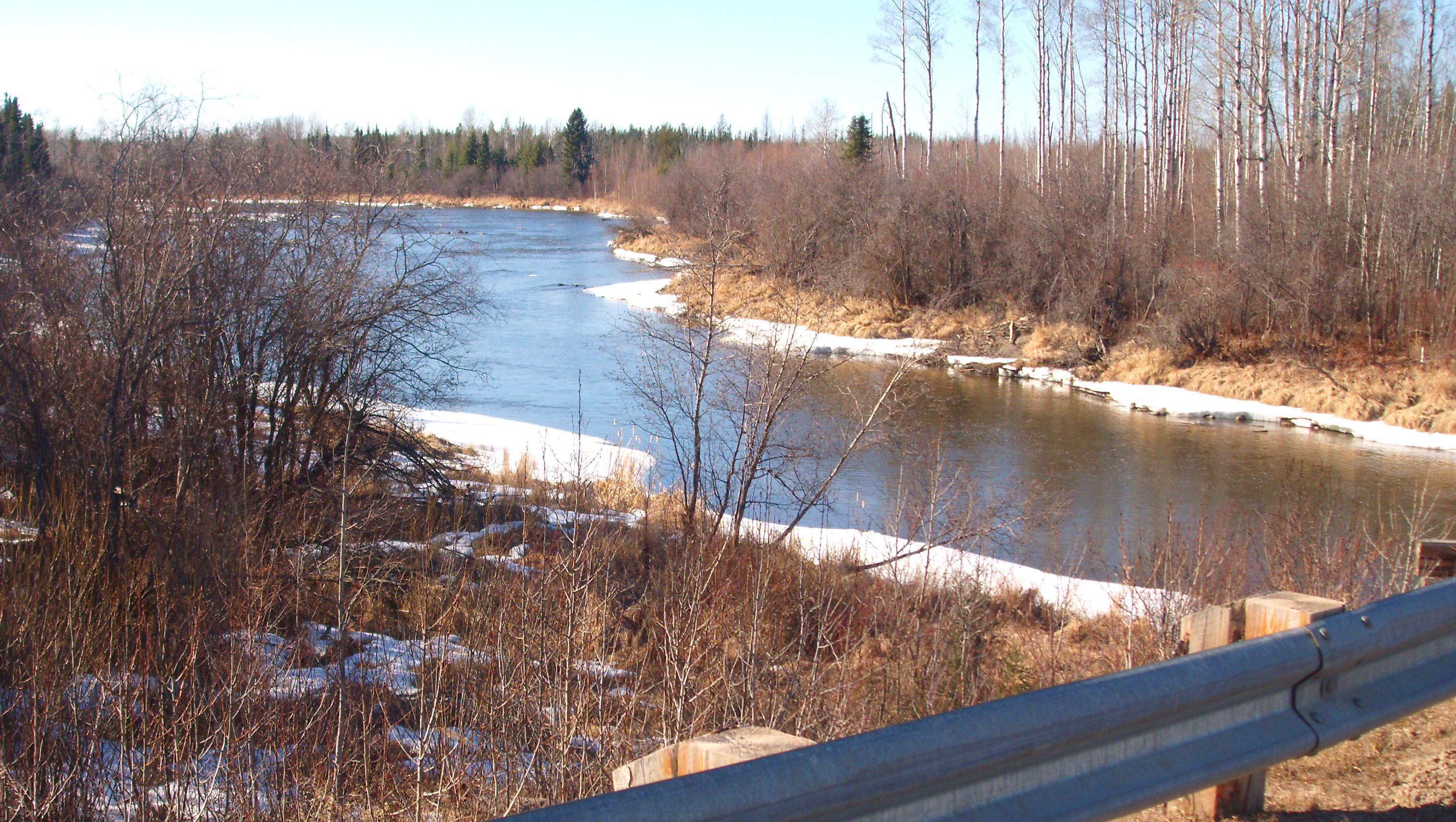 The Waterhen River north of Green Lake, Saskatchewan at the Highway 155 bridge crossing (looking downstream). Ice and snow are visible along both banks and in the trees